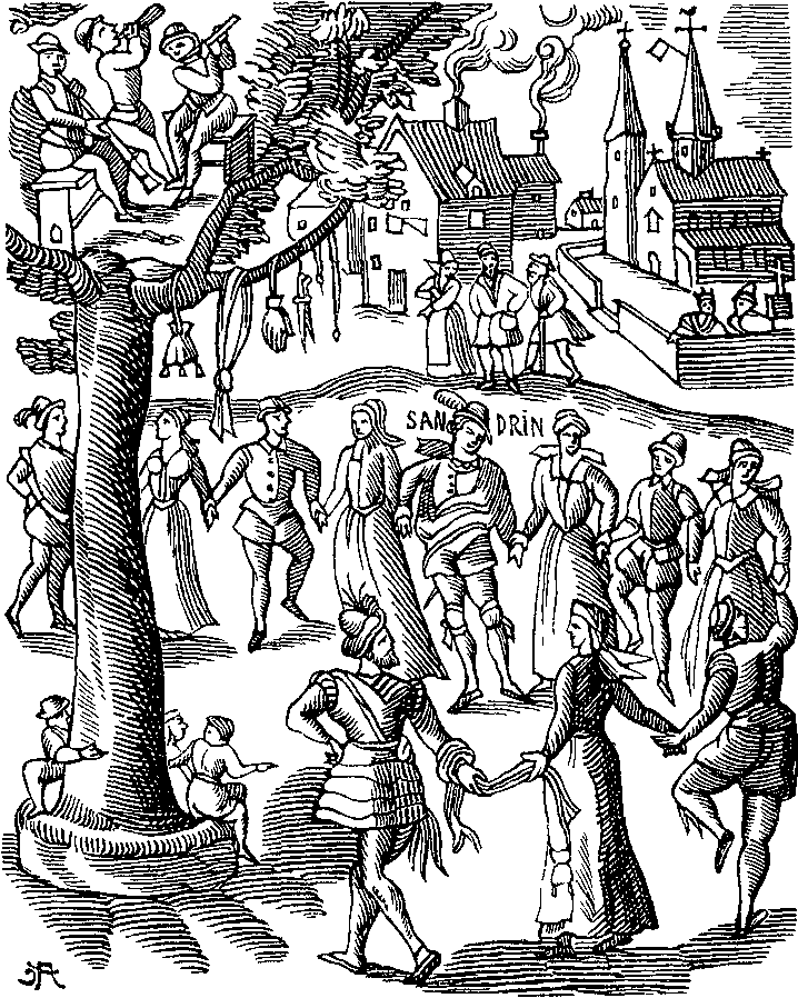 Village Feast.--Fac-simile of a Woodcut of the "Sandrin ou Verd Galant," facetious Work of the End of the Sixteenth Century (edition of 1609). Project Gutenberg text 10940